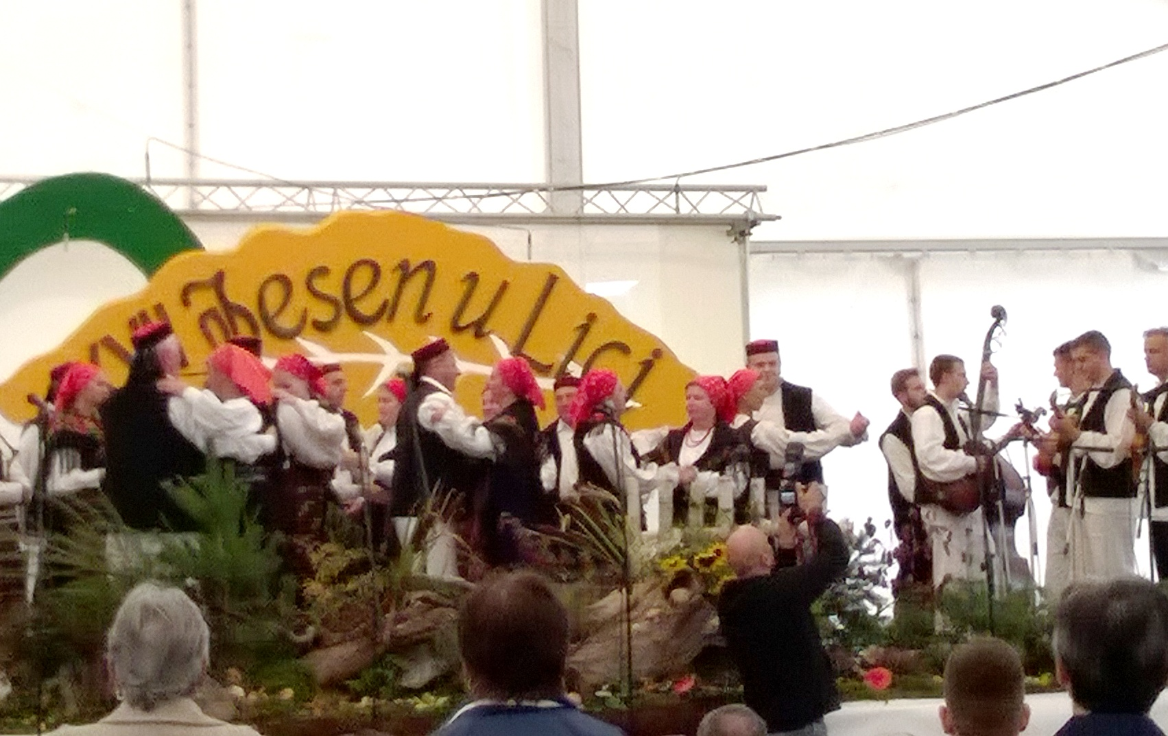 Cultural festival "Autumn in Lika" in Gospić, Croatia